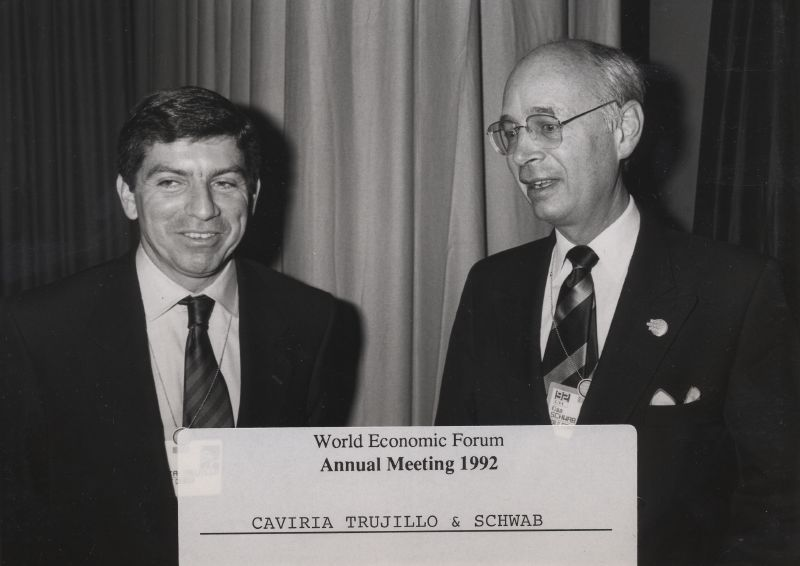 Copyright World Economic Forum